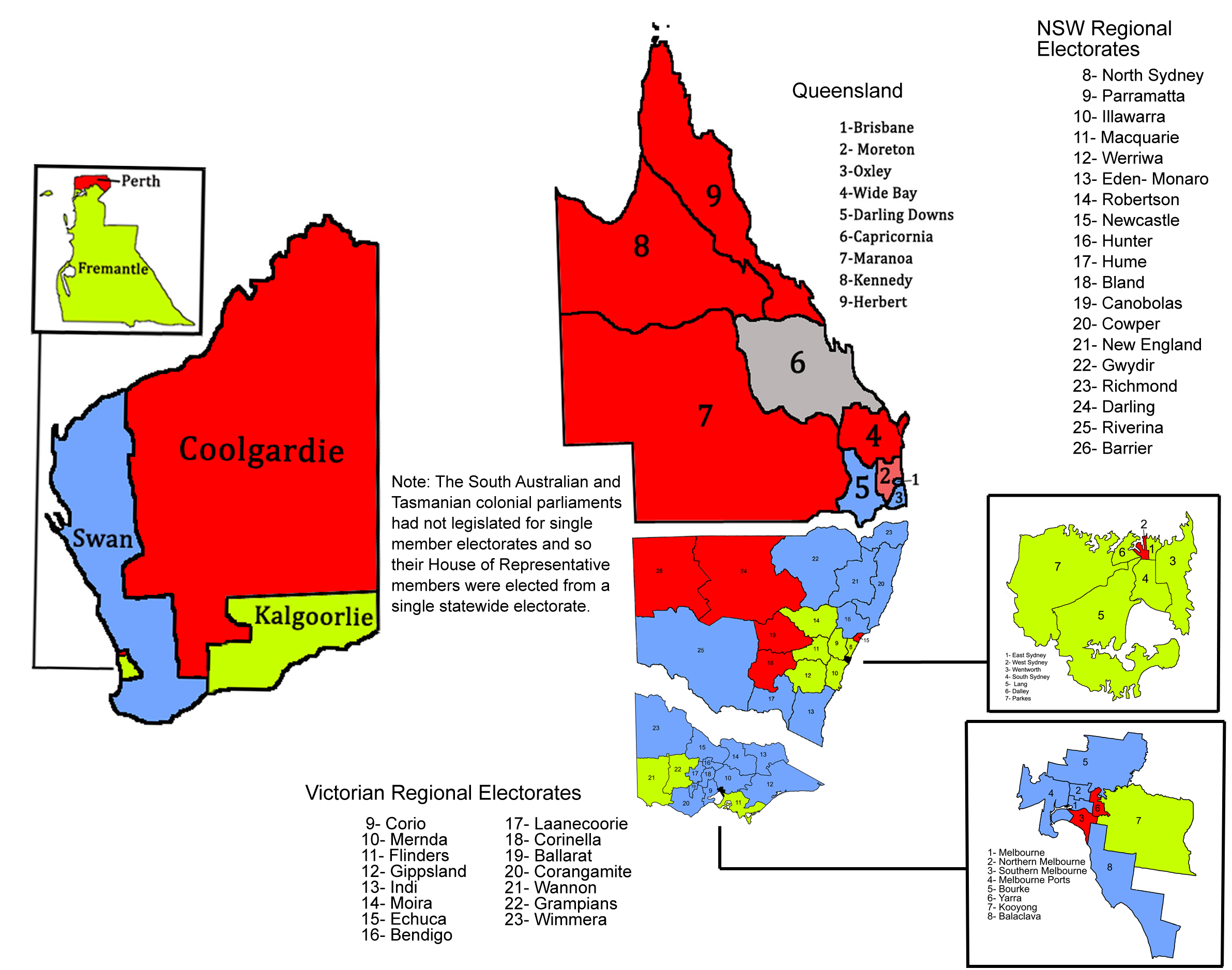 A map of the results of the 1901 Australian federal election State Labour Parties Protectionist Party Free Trade Party Independents Independent Labour